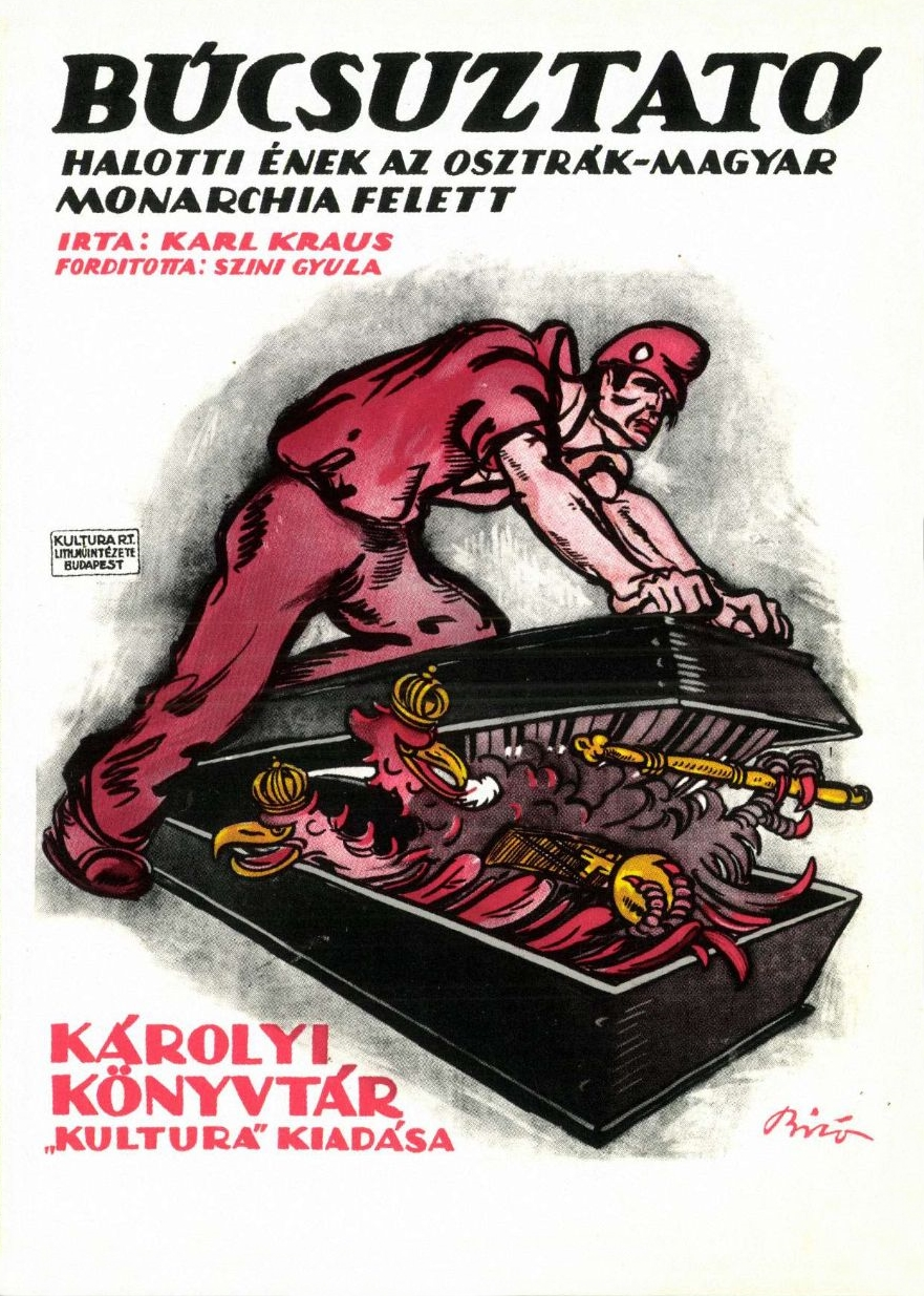 Postcard about a book covers. The book wrote by Karl Kraus. The book cover illustrated/drew by Mihály Bíró.